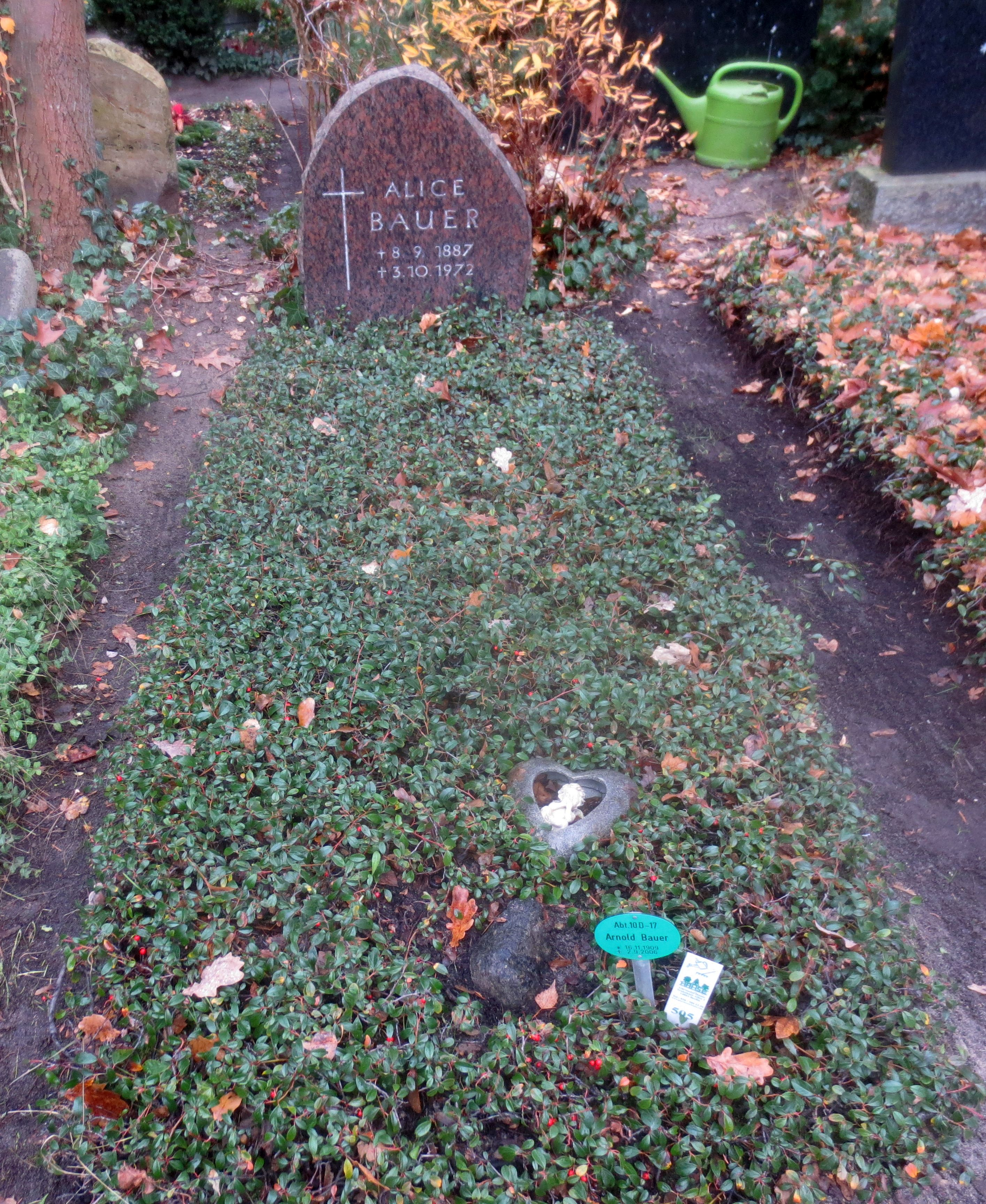 Grave of the writer and resistance fighter Arnold Bauer (1909-2006) on the Friedhof Heerstraße cemetery in Berlin-Westend (grave site: 10-D-17).